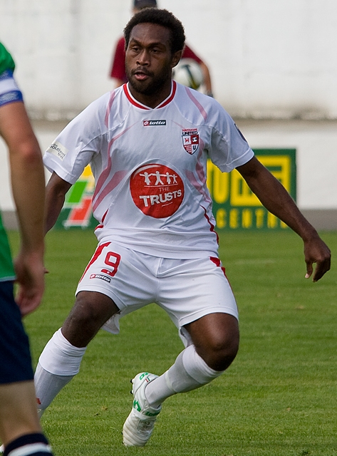 Benjamin Totori, Solomon Islands footballer, in 2009 with Waitakere United